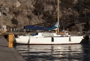 Albin Larson Vega in Santa Teresa di Gallura (Italy)